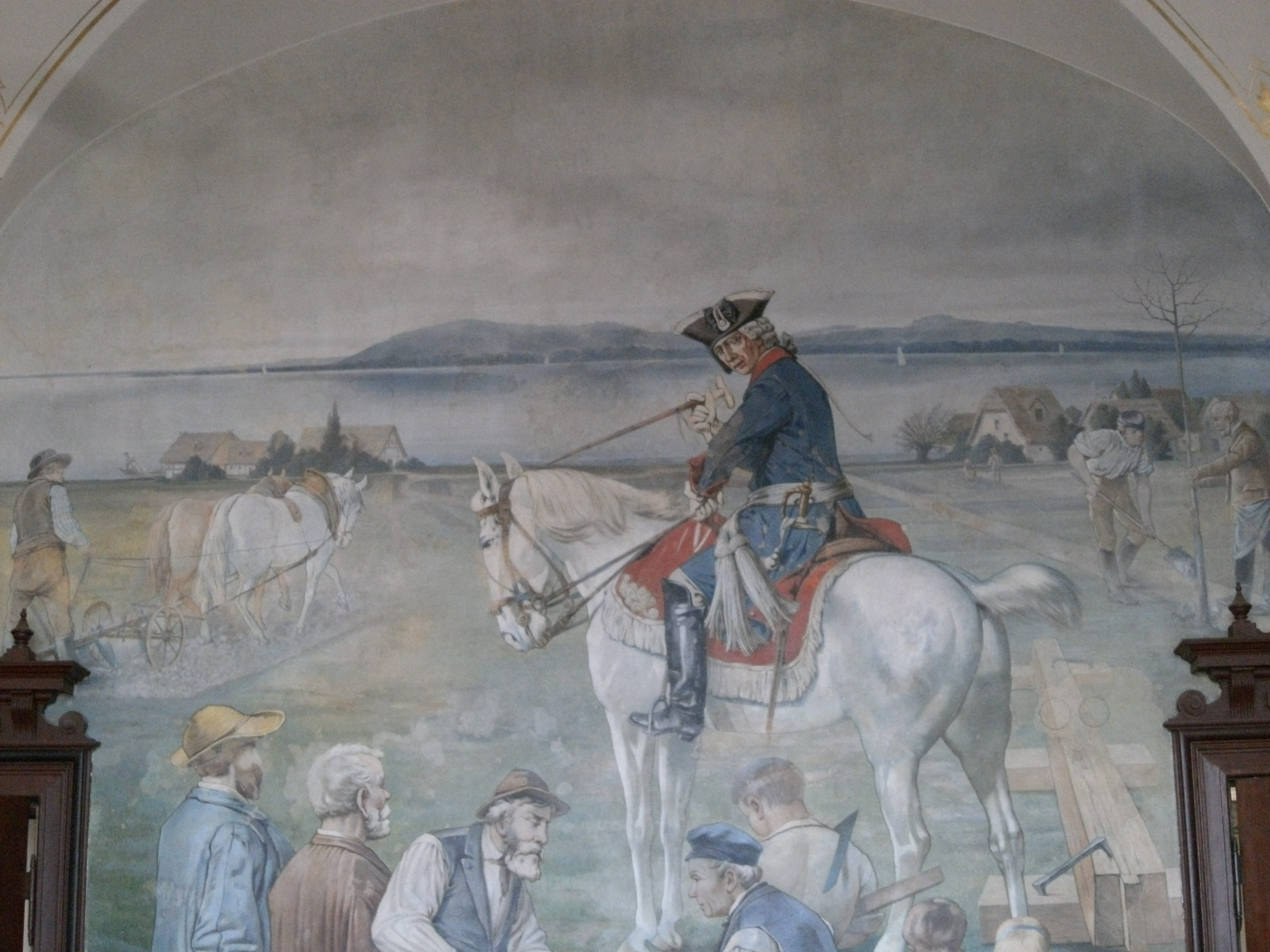 Woldemar Friedrich: "Der Alte Fritz und die Siedler"